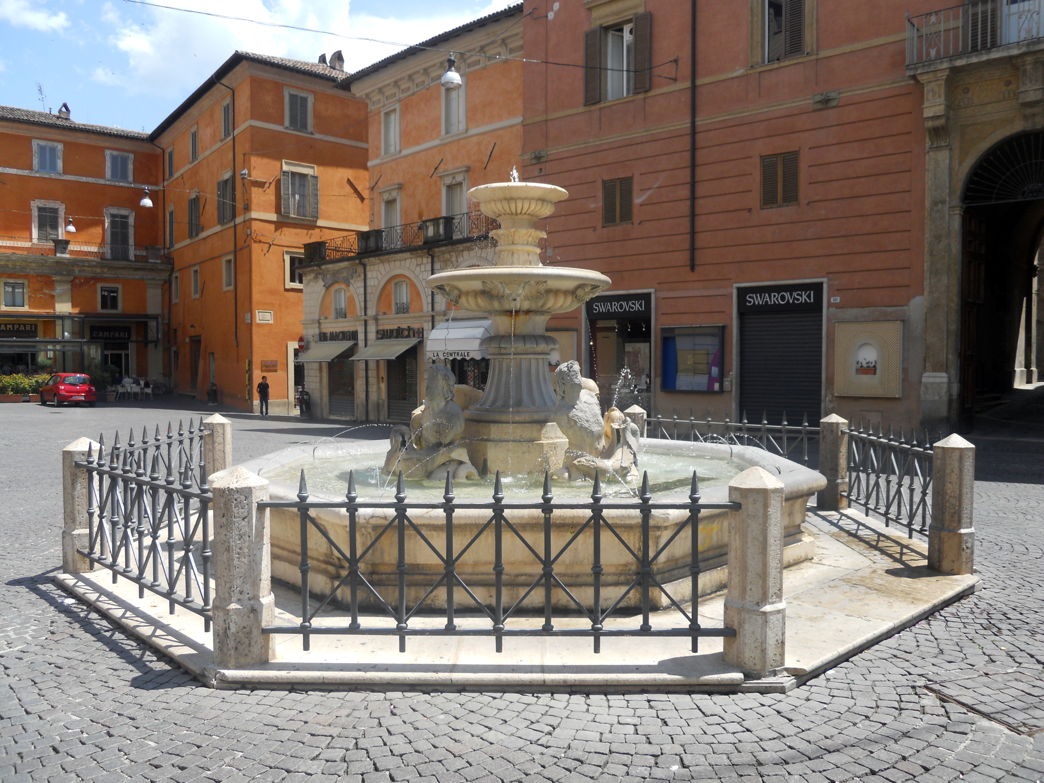 Fontana dei delfini fountain in Vittorio Emanuele II square, Rieti, Italy